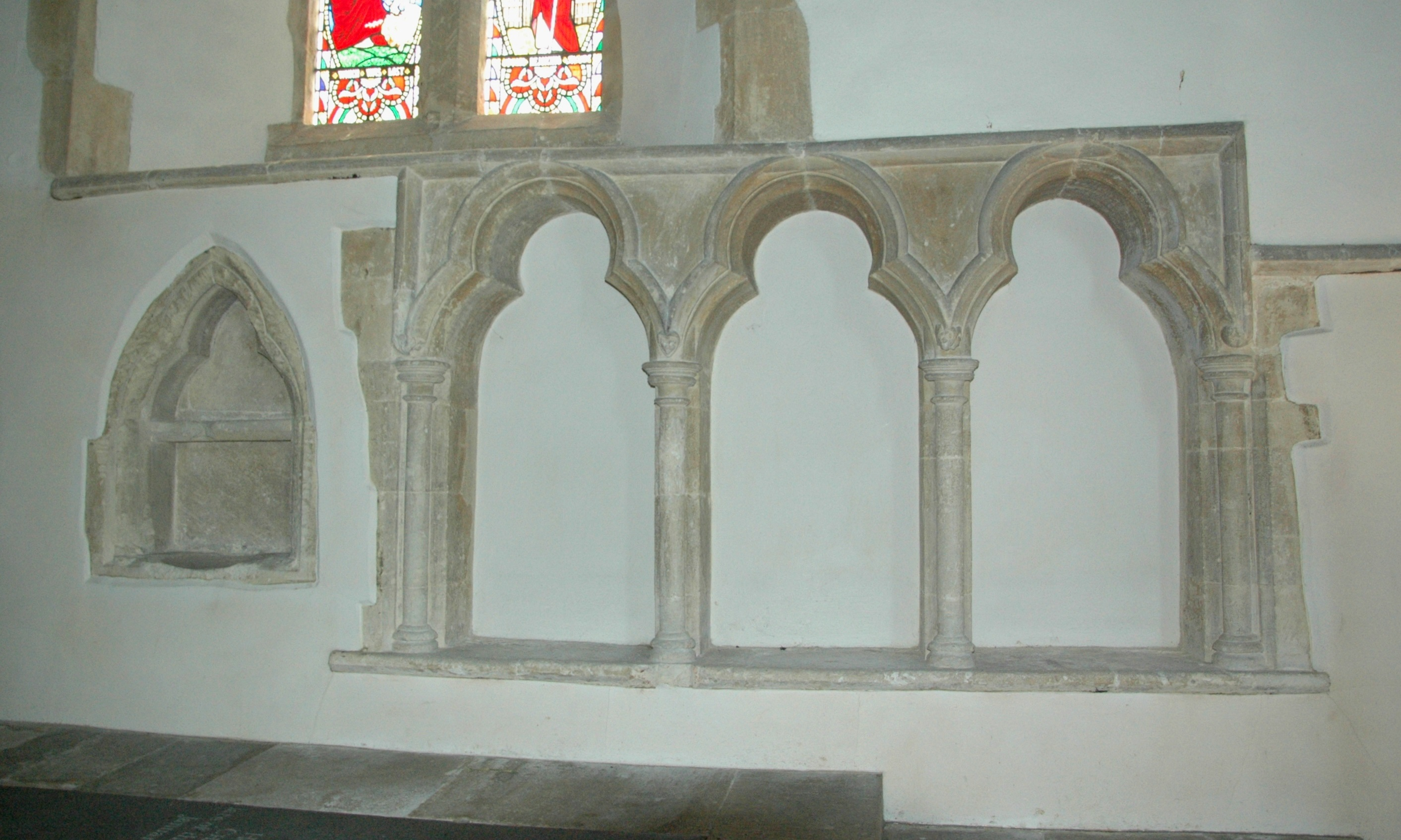 Church of England parish church of St Denys, Northmoor, Oxfordshire: Early English sedilia